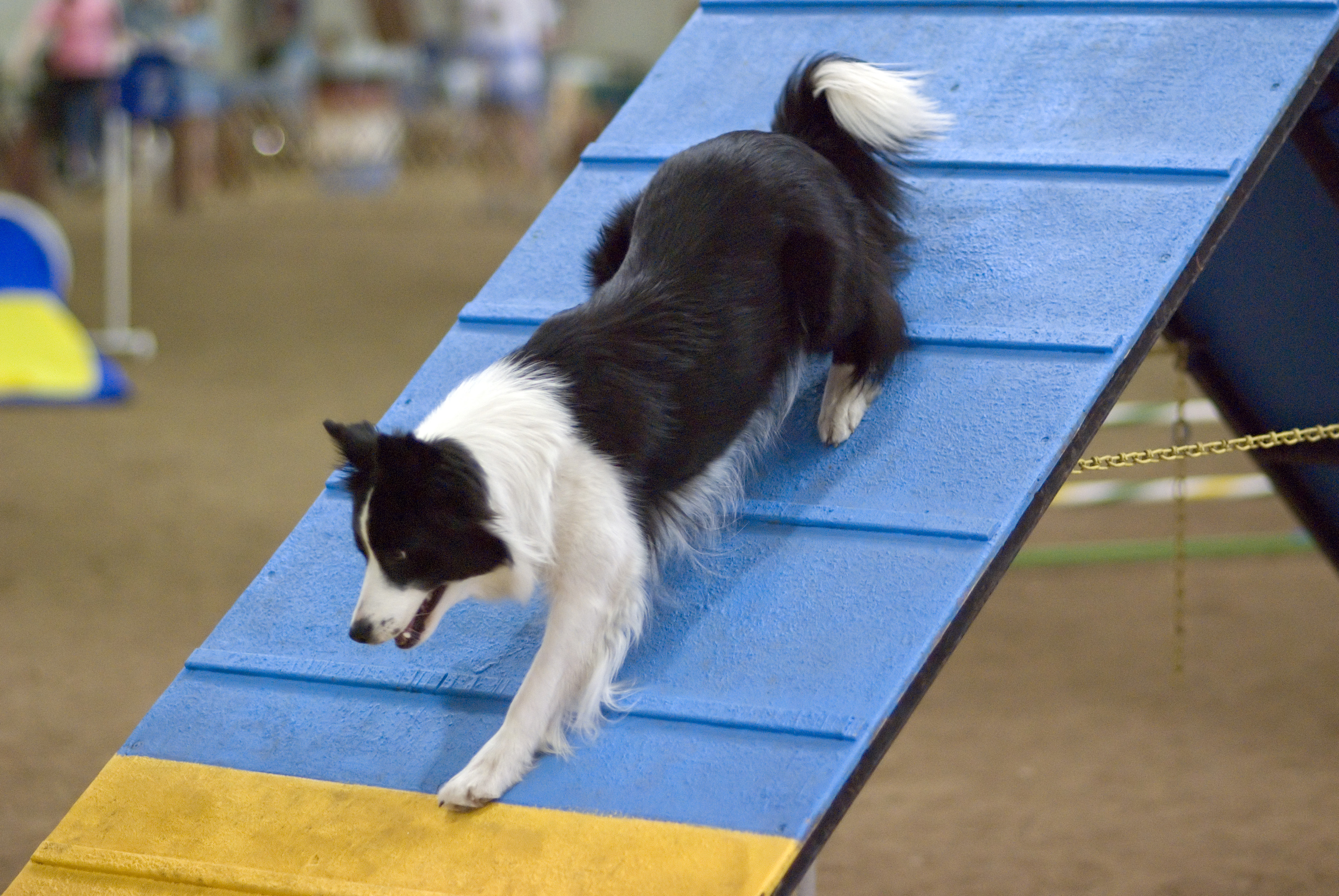 A Border Collie descending an A-frame at an agility competition.